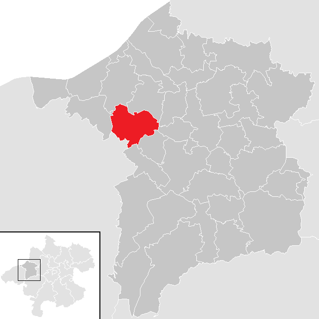 district Ried im Innkreis